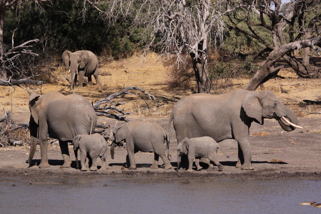 African Elephant, Loxodonta africana - adults and young drinking at waterhole in Mapungubwe